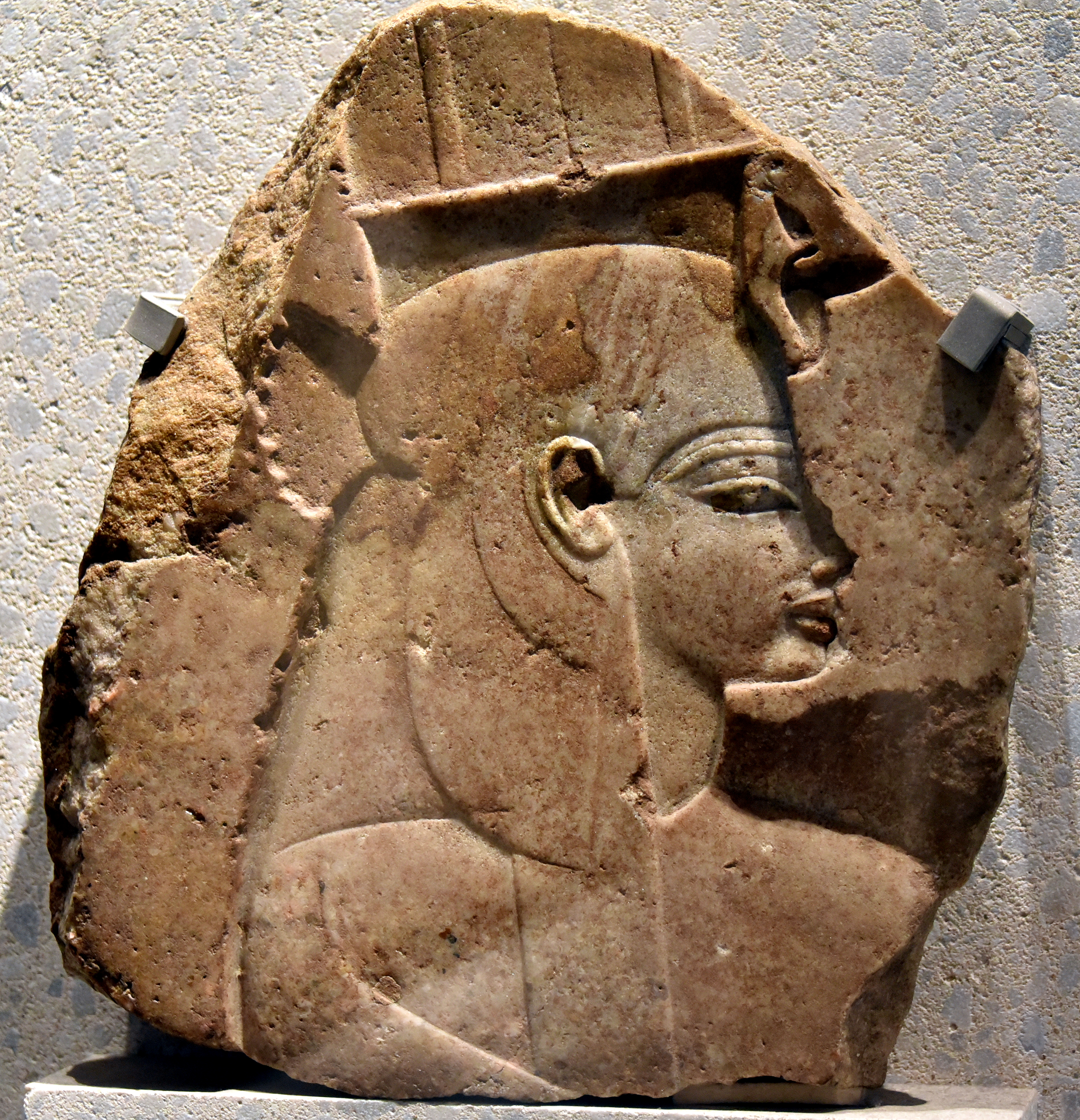 Relief of Queen Tiye, the Great Royal Wife of Amenhotep III, wearing the vulture headdress and uraeus. The fragment was part of a stele. From the mortuary temple of Amenhotep III at Western Thebes, Egypt. New Kingdom, 18th Dynasty, c. 1375 BCE. Neues Museum, Berlin, Germany. ÄM 23270.